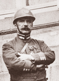 Émile Driant (1885-1916), French writer